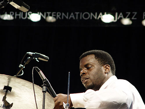 Gregory Hutchinson at Aarhus Jazz Festival 2009